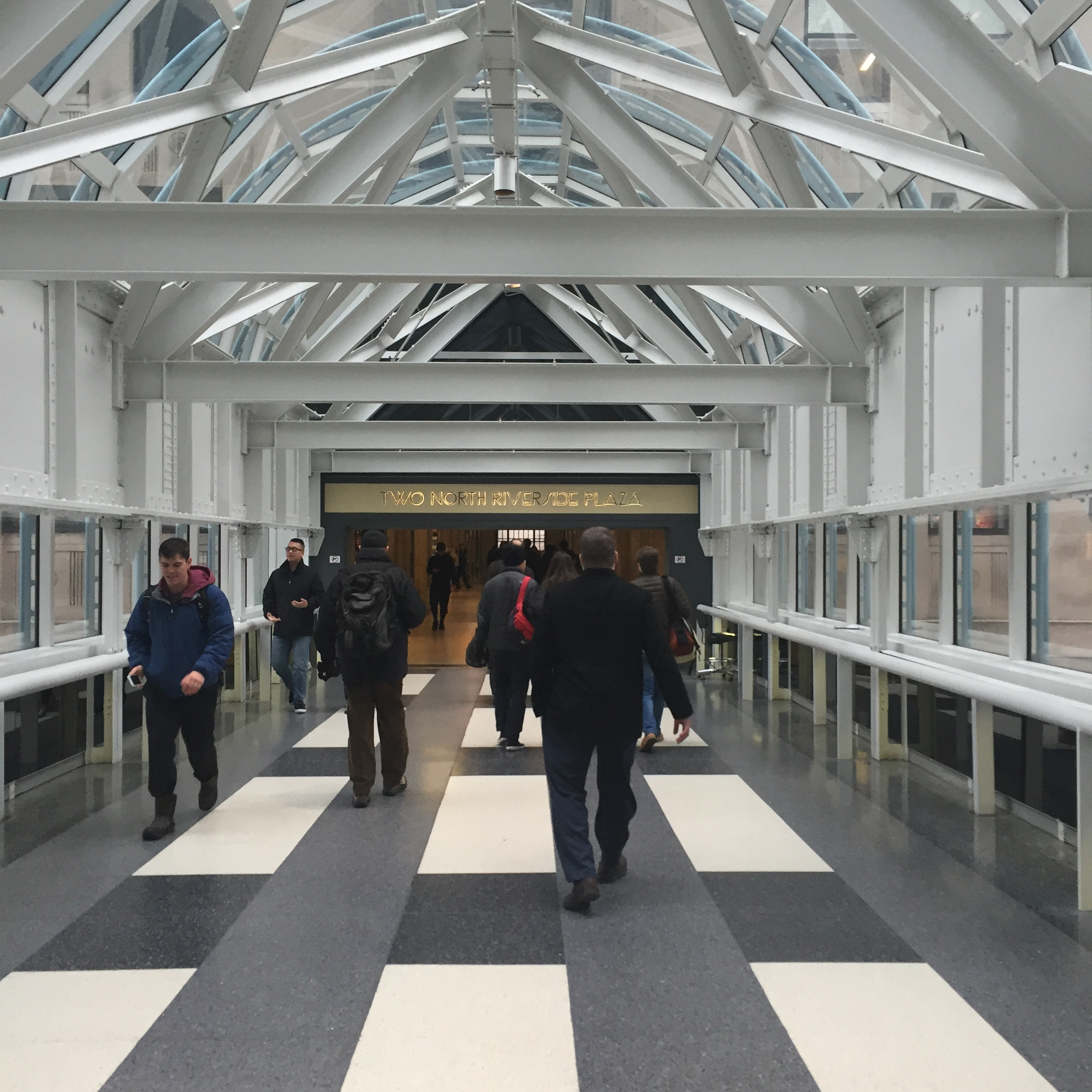 2 North Riverside overpass